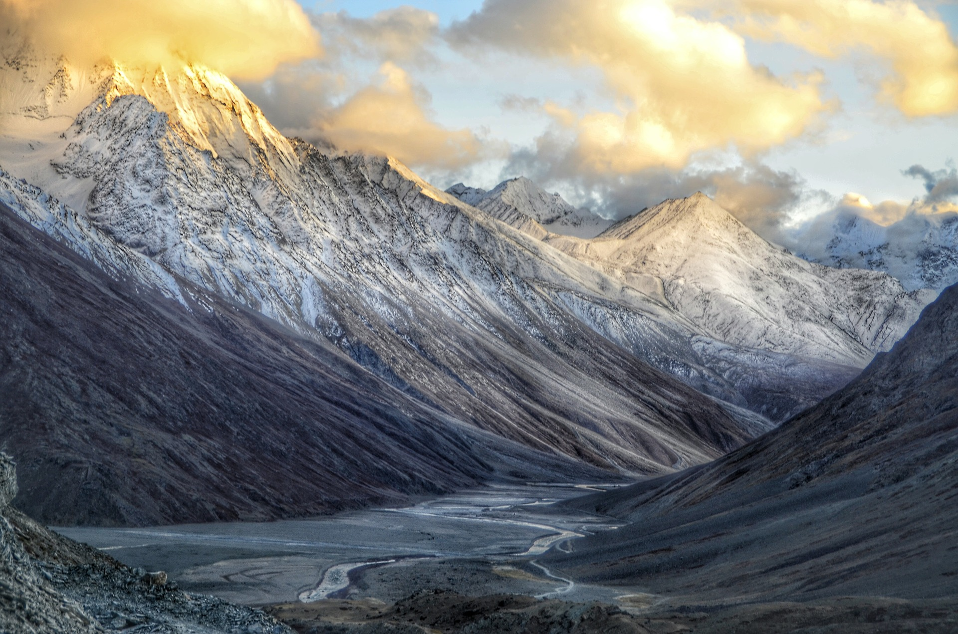 Spiti, Himachal Pradesh, India